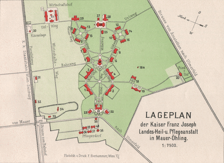 LK Mauer Lageplan